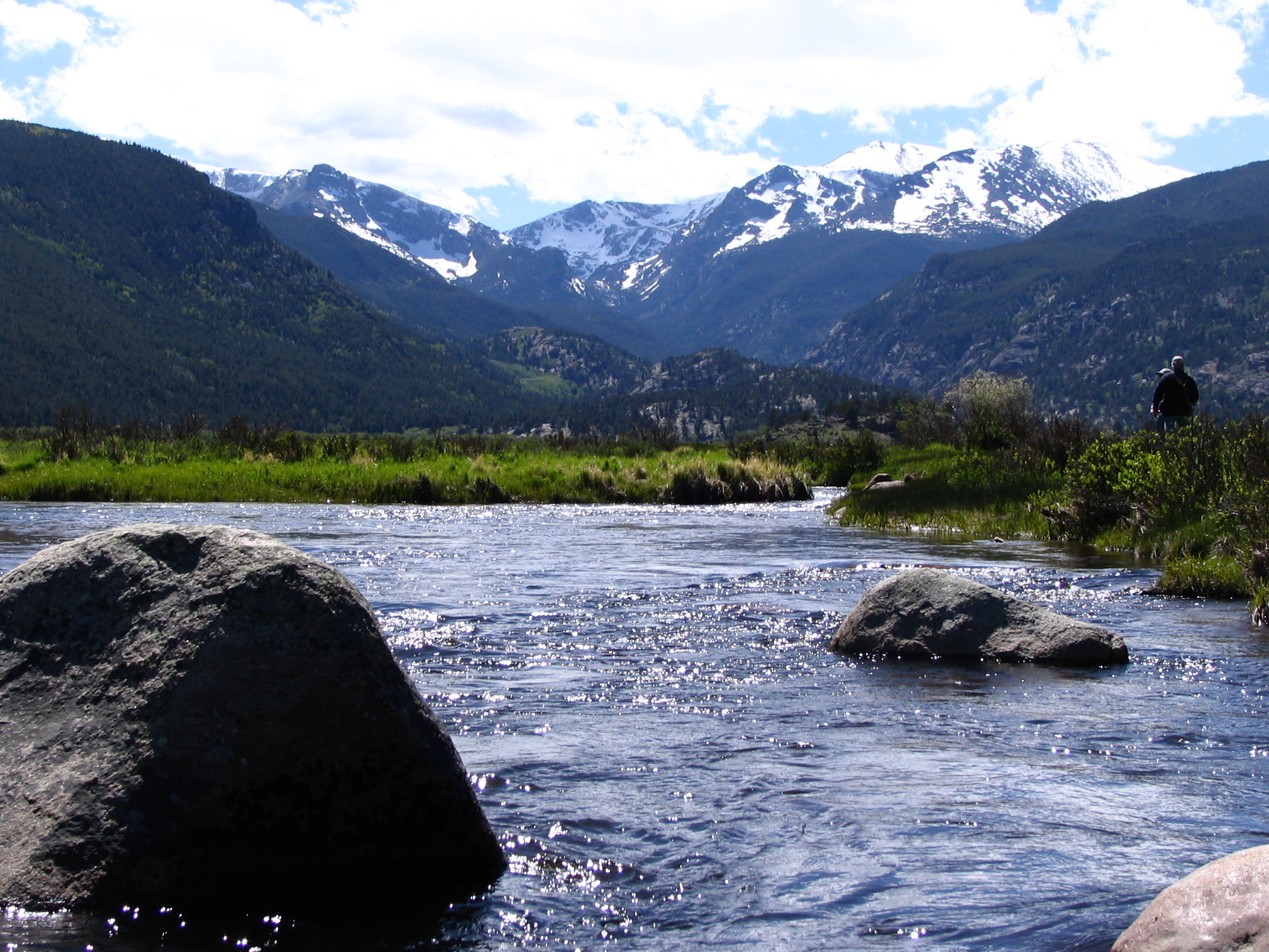 Photo taken while driving through the Rocky Mountain National Park